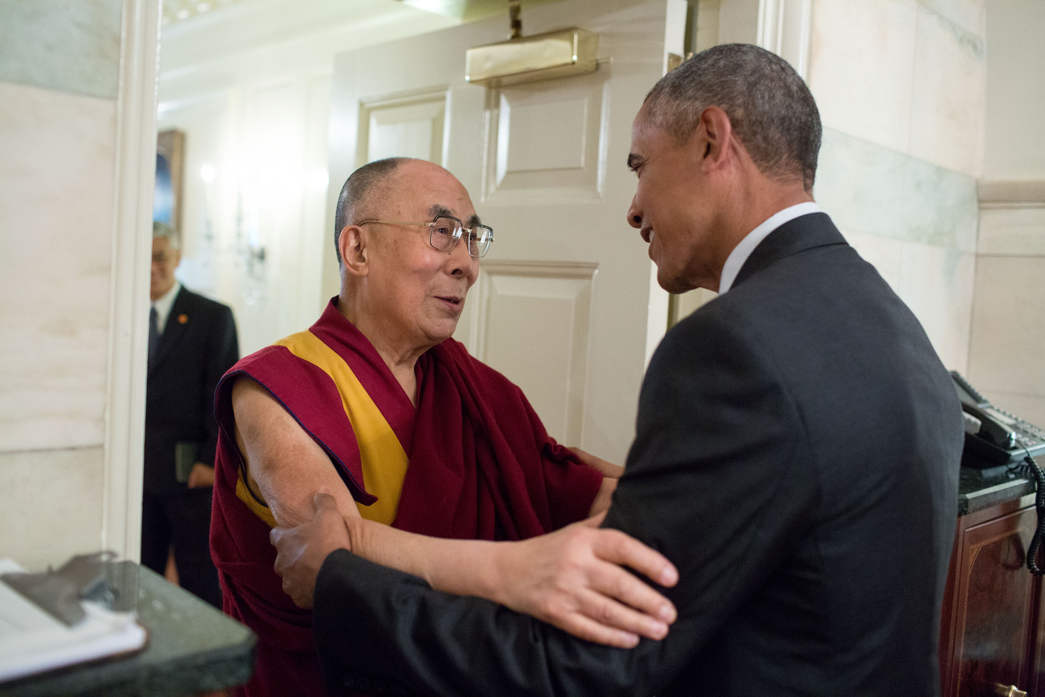 President Barack Obama greets His Holiness the Dalai Lama at the entrance of the Map Room of the White House, June 15, 2016. (Official White House Photo by Pete Souza)